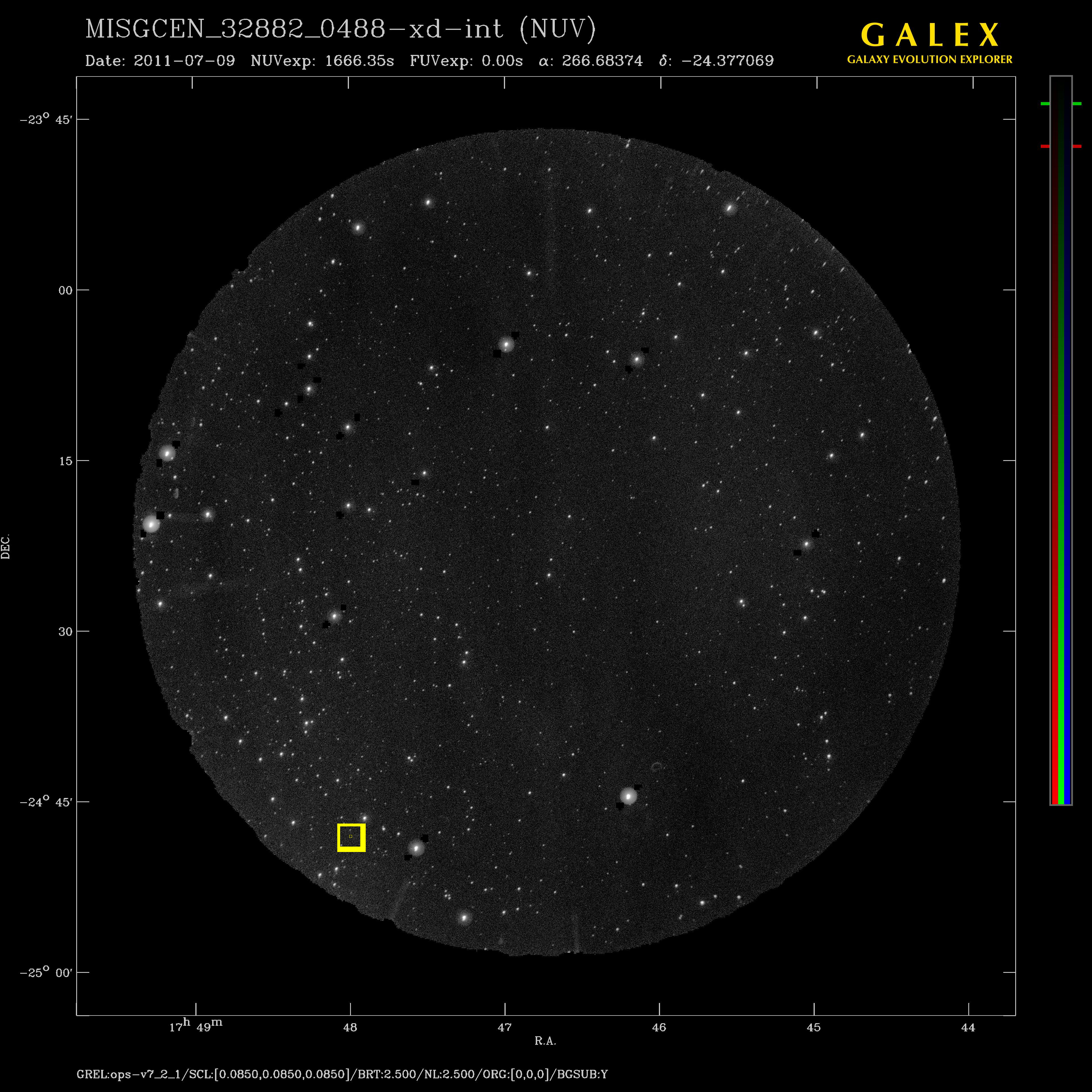 This image shows the location of the pulsar PSR J1748-2446ad as accurately as I was able to show. The pulsar is located in the center of the inner yellow square. It is not visible in this image against the background.